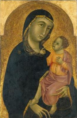 Vierge à l'Enfant (vers 1325), or et tempera sur bois, 53,7 × 35,9 cm, Seattle, Art Museum, Samuel H. Kress collection (inv. 61.152 - K.309)